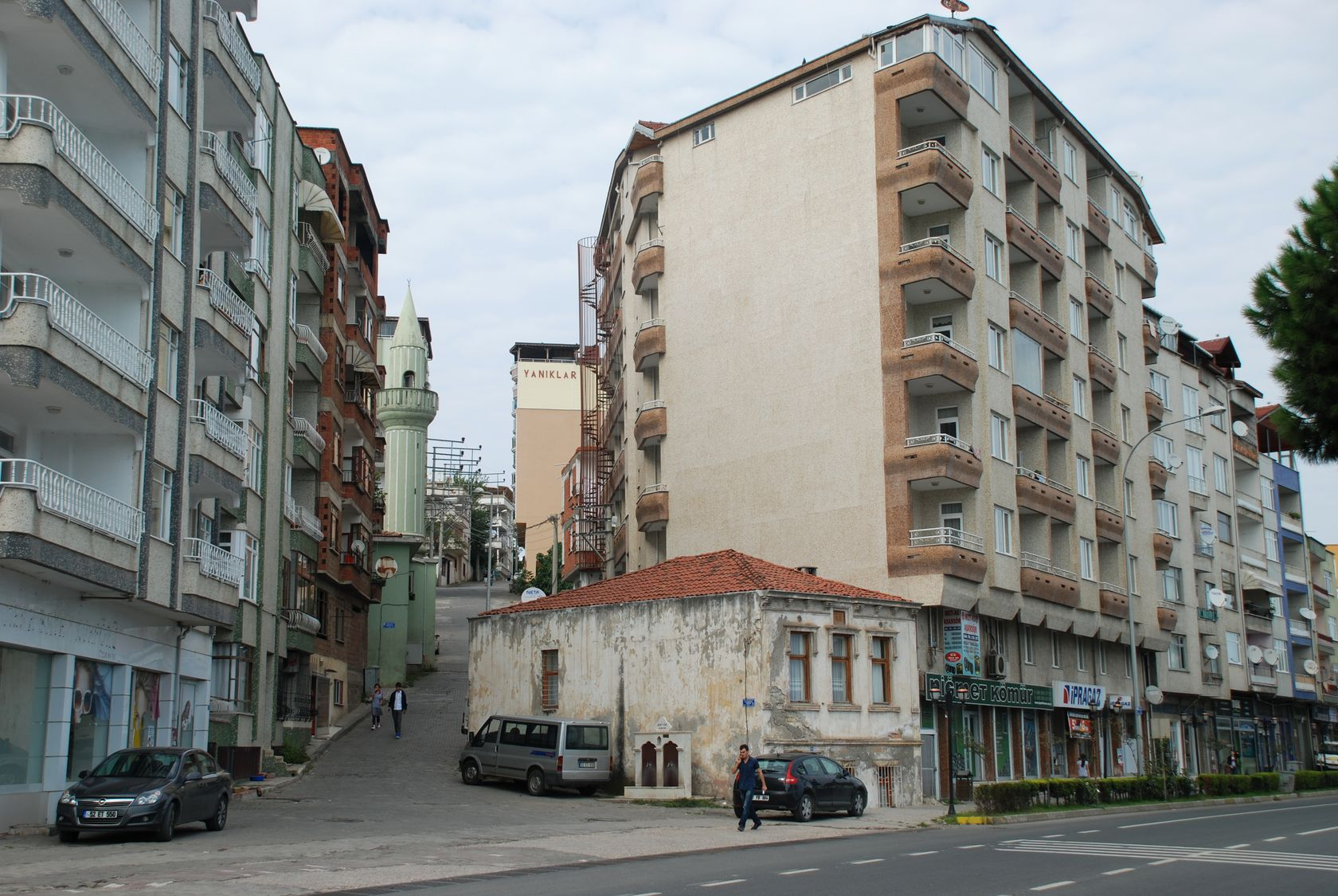 Ünye, Turkey, center